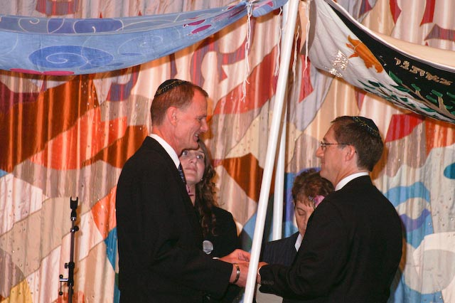 As we once again stood under a huppah, our Rabbi conducted a civil ceremony that was in many ways just as beautiful and profound as the religious ceremonies she has conducted for us in past years.